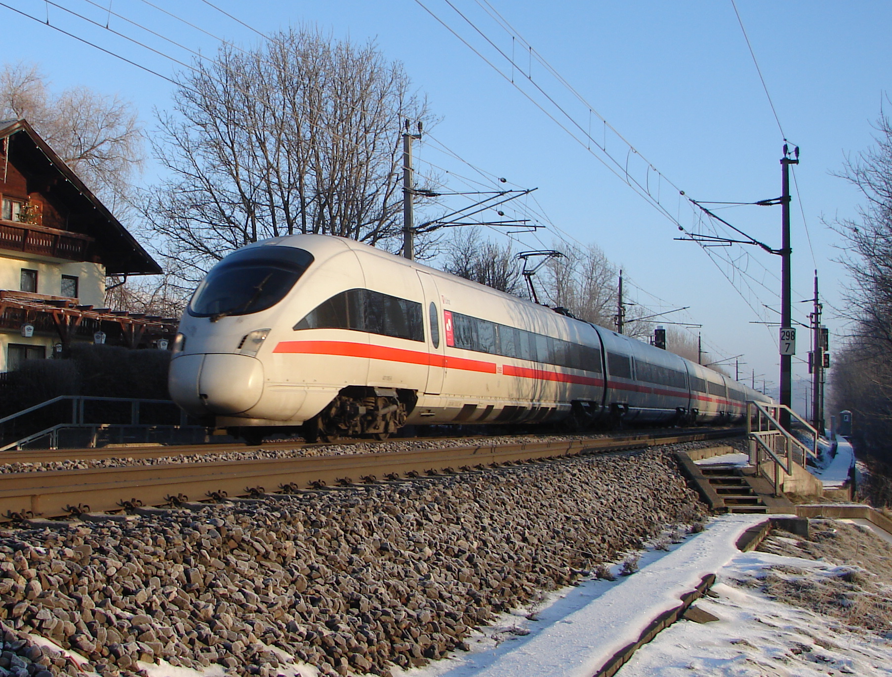 On the very cold morning of 10.01.2009, ÖBB class 4011 092 "Linz" and a DB class 4011 run through Seekirchen am Wallersee/Austria as joint train run ICE 260+ICE 560 and will soon reach Salzburg, from where they will continue separately to Bregenz resp. Munich. Next to the door, ÖBB 4011 092 "Linz" displays the red Linz09 logo.